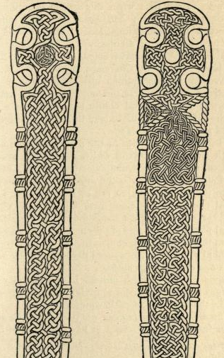 image caption from book: Cross at Neuadd Siarman near Builth, Brecknockshire